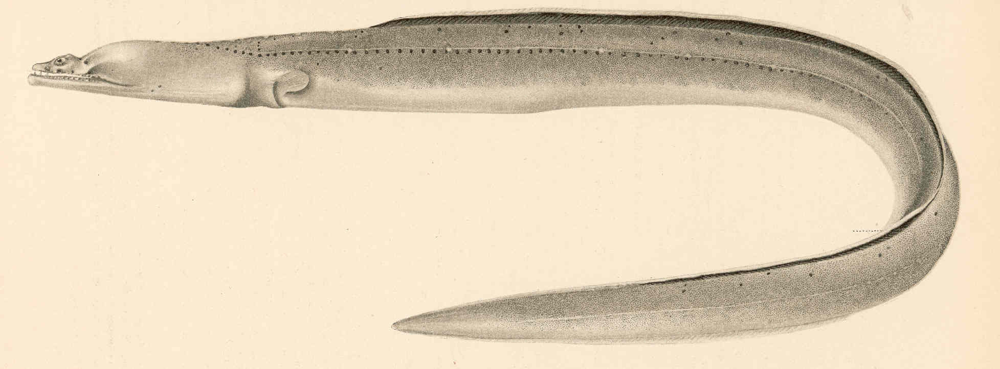 Brachysomophis henshawi Jordan & Snyder. Type Subject: Eels, Brachysomophis Tag: Fish